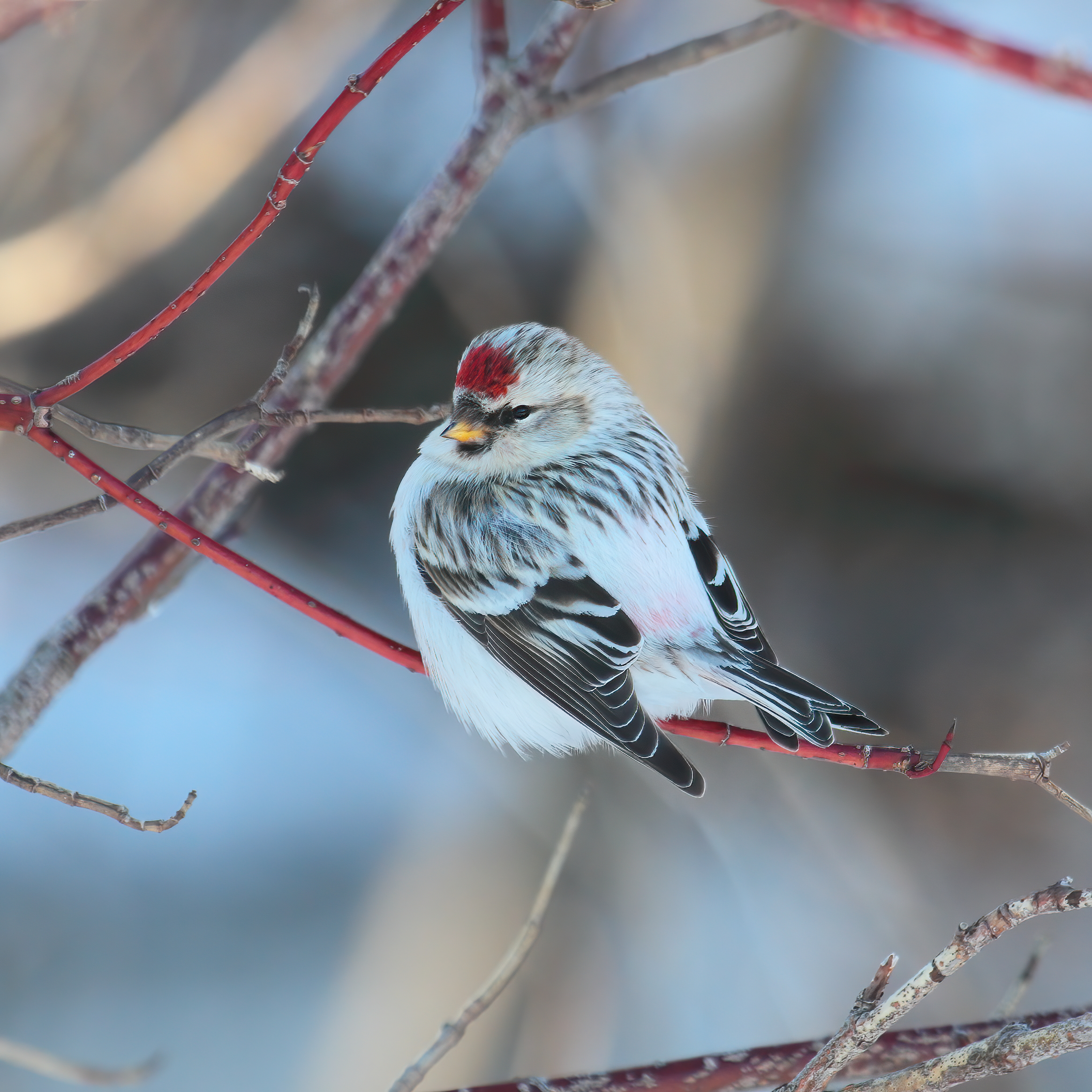 Arctic Redpoll, Cap Tourmente National Wildlife Area, Quebec, Canada.